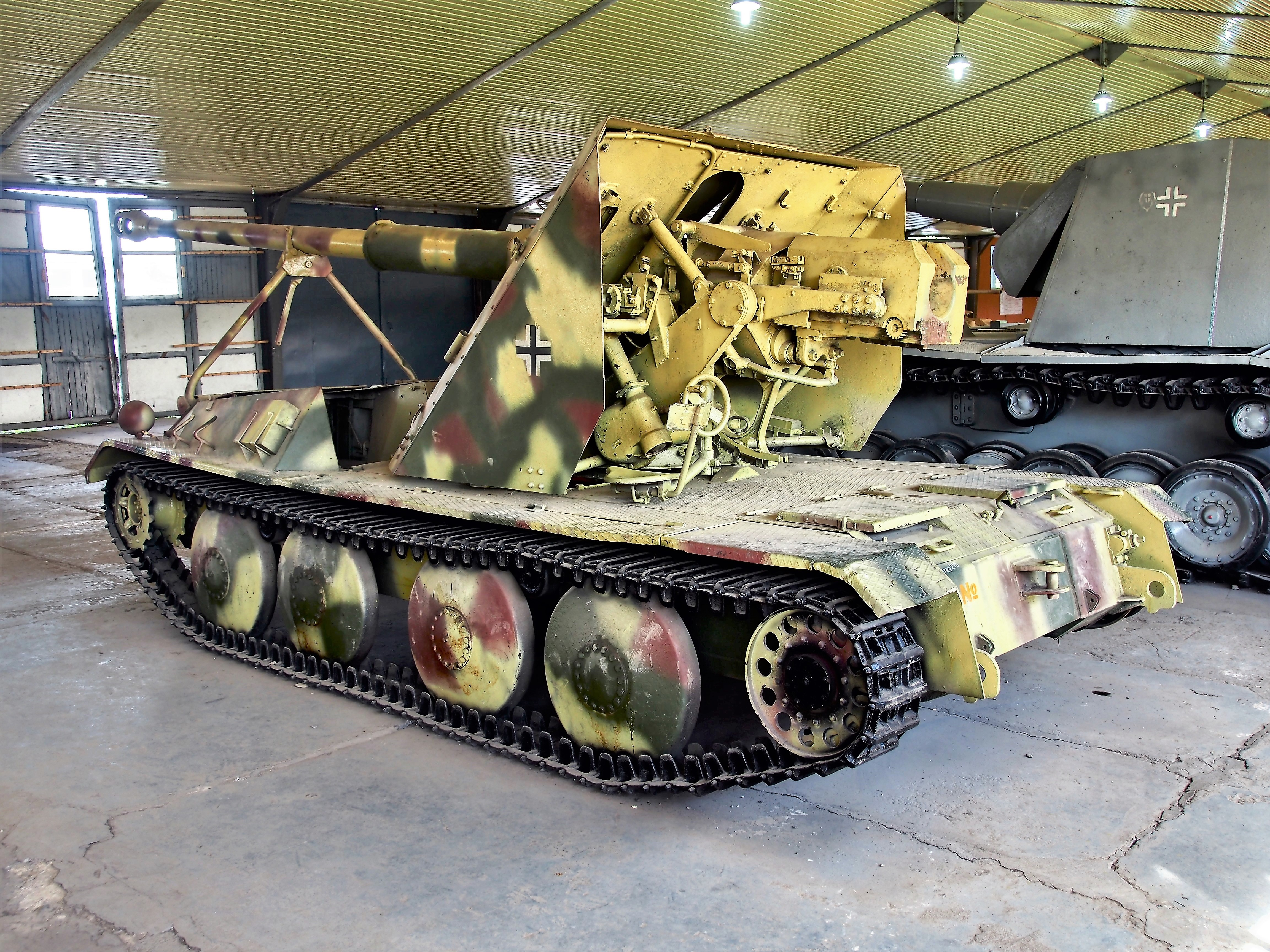 Waffentrager 8.8cm PaK 43 in the Kubinka Tank Museum.